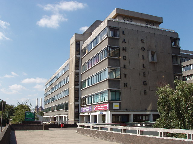 Lambeth College. Taken from Wandsworth Road looking along the frontage to Belmore Street